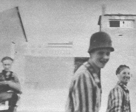 Prisoners from Gęsiówka a German-Nazi prison camp in Warsaw after liberation by soldiers from "Zośka" Battalion.